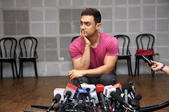 Aamir Khan at Satyamev Jayate press conference